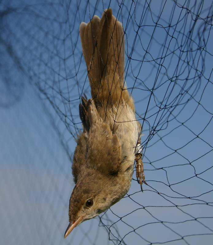 Putting of an Eurasian reed warbler, Mekszikópuszta, Hungary